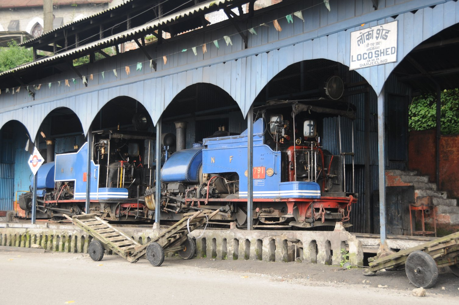 Steam locos of Darjeeling Himalayan Railway in their shed, Darjeeling.